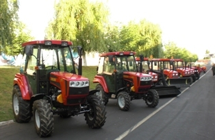 Tractors "Belarus"